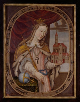 Ludmila of Bohemia